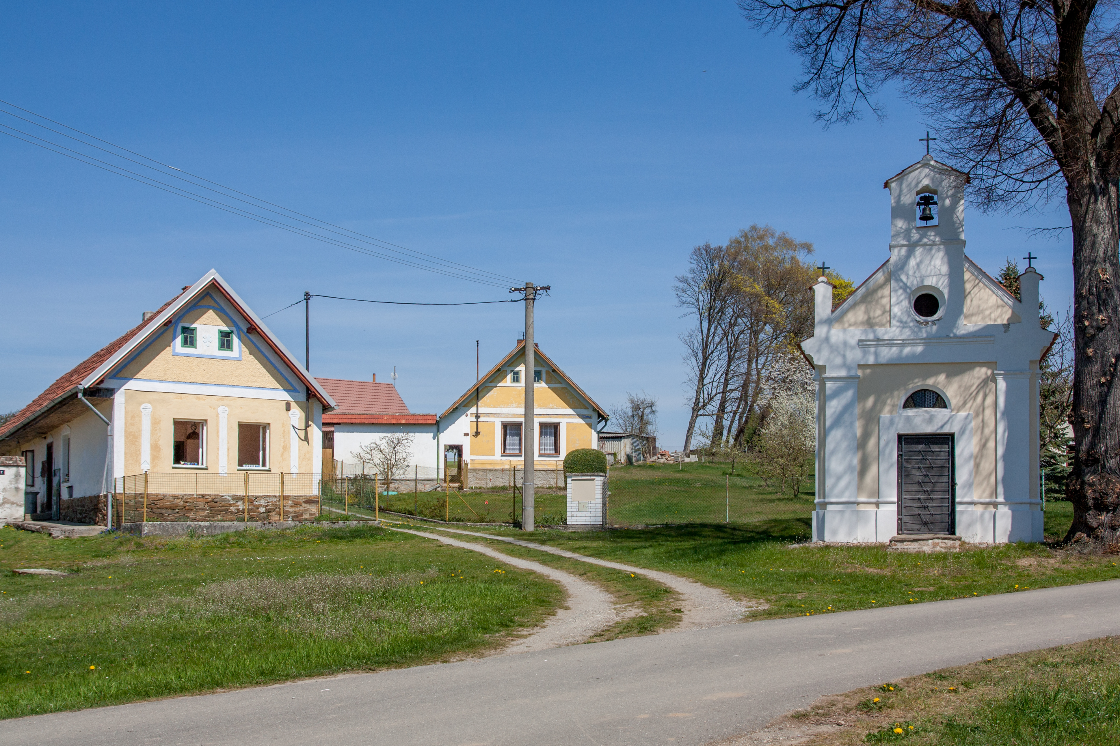 Village square in municipality Bendovo Záhoří, Tábor District, South Bohemian Region, Czechia